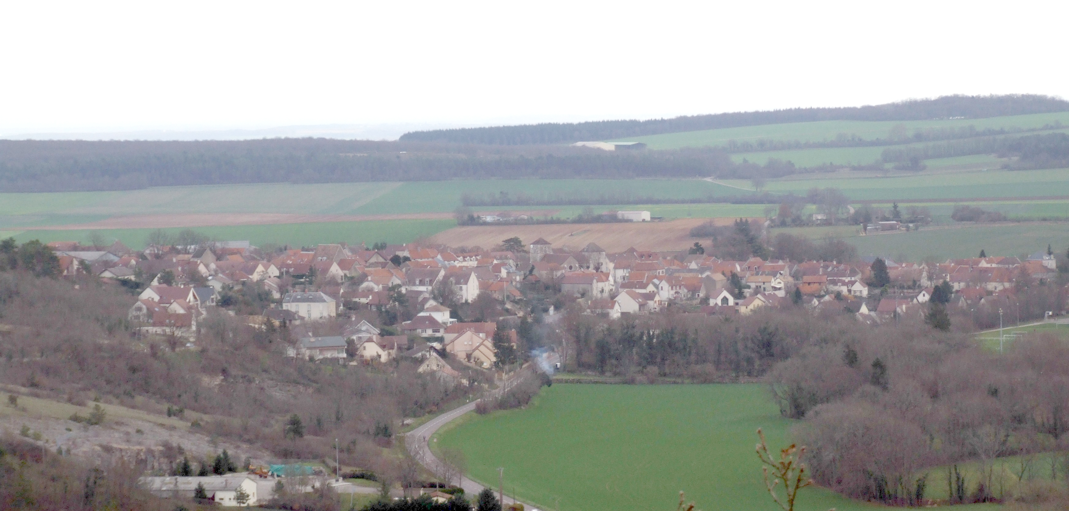 Panoramic view of Messigny et Ventoux, Côte d'Or, Burgundy, FRANCE